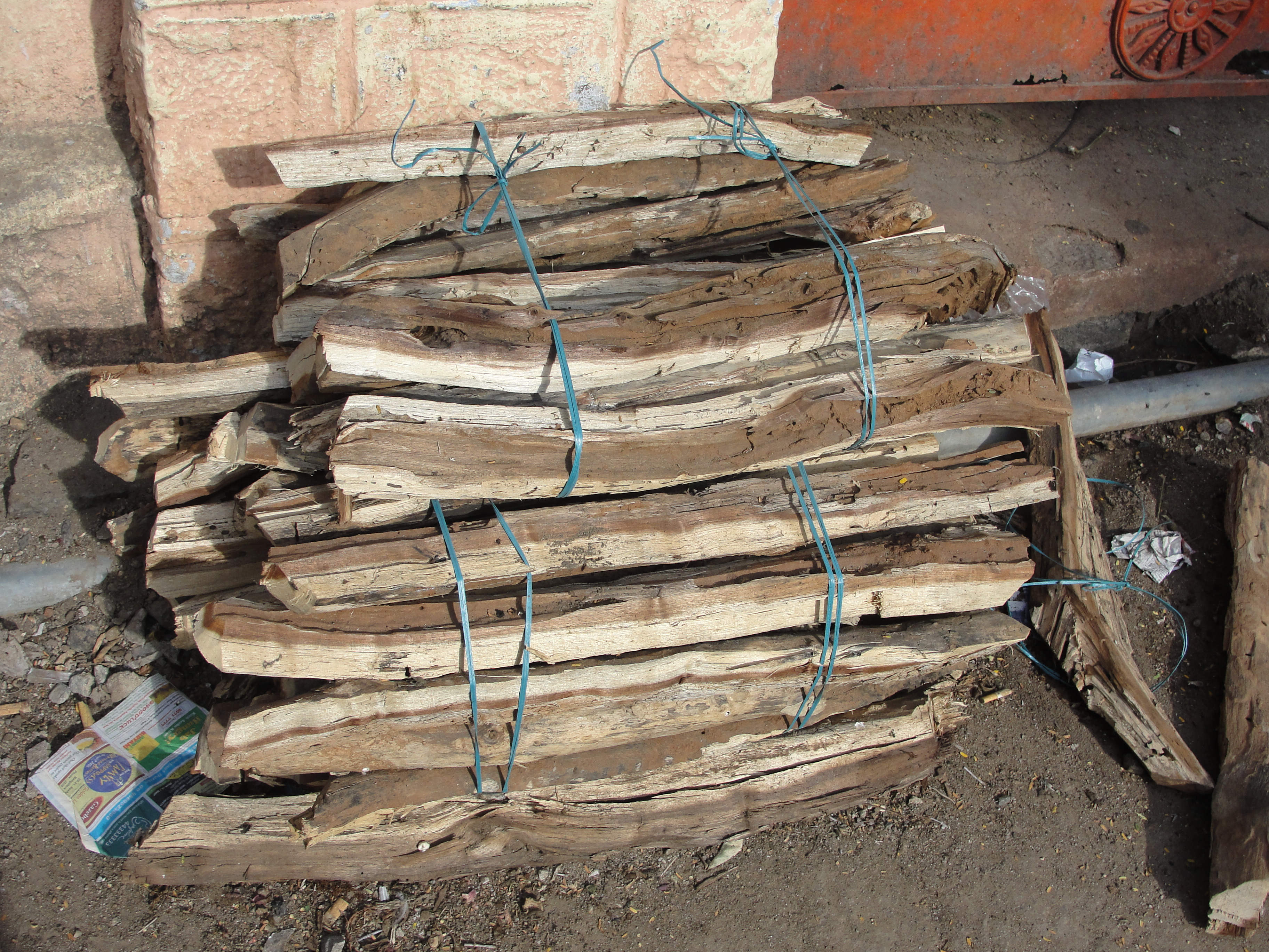 firewood